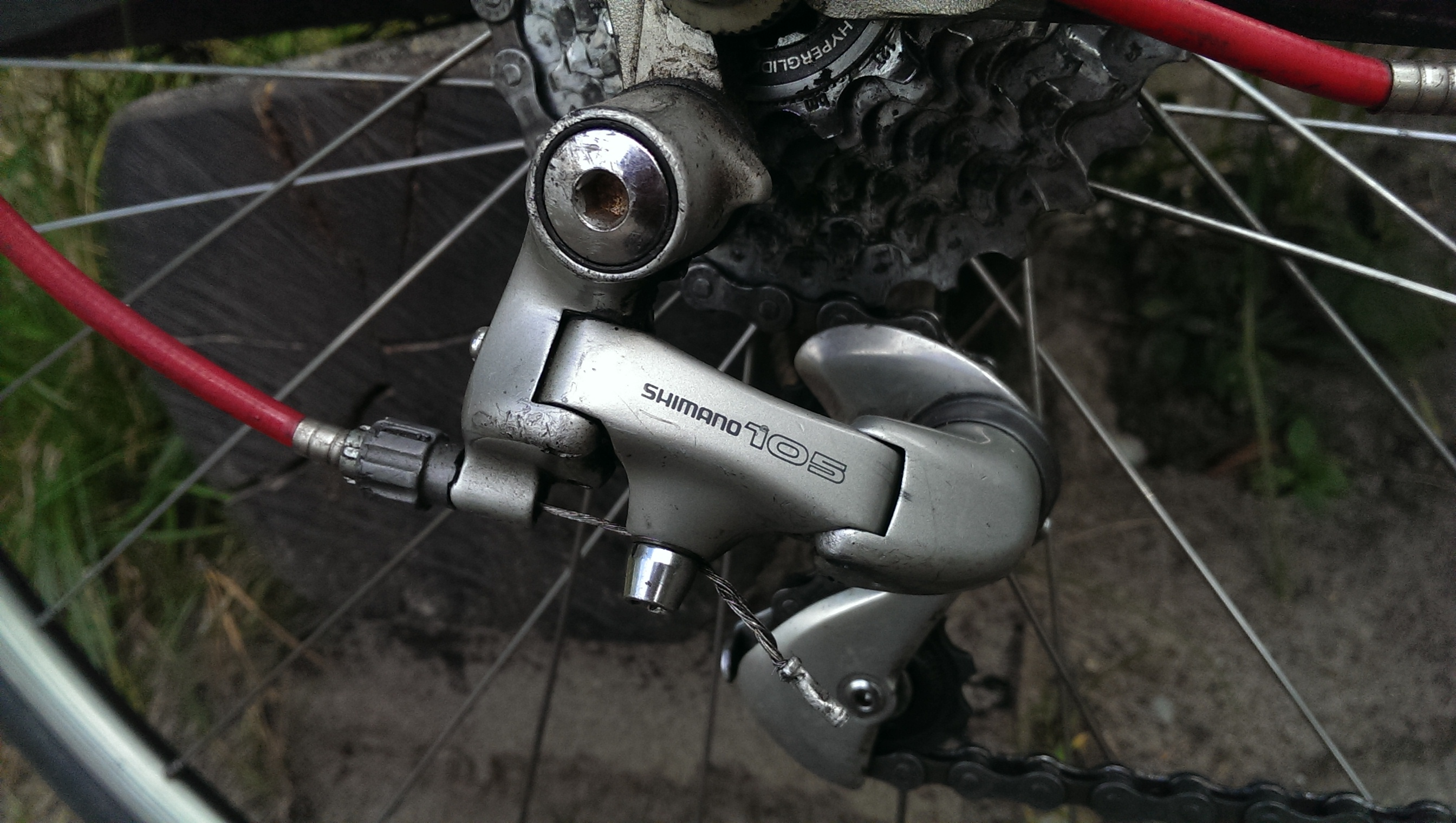 Shimano 105 1055SC 7 speed rear derailleur